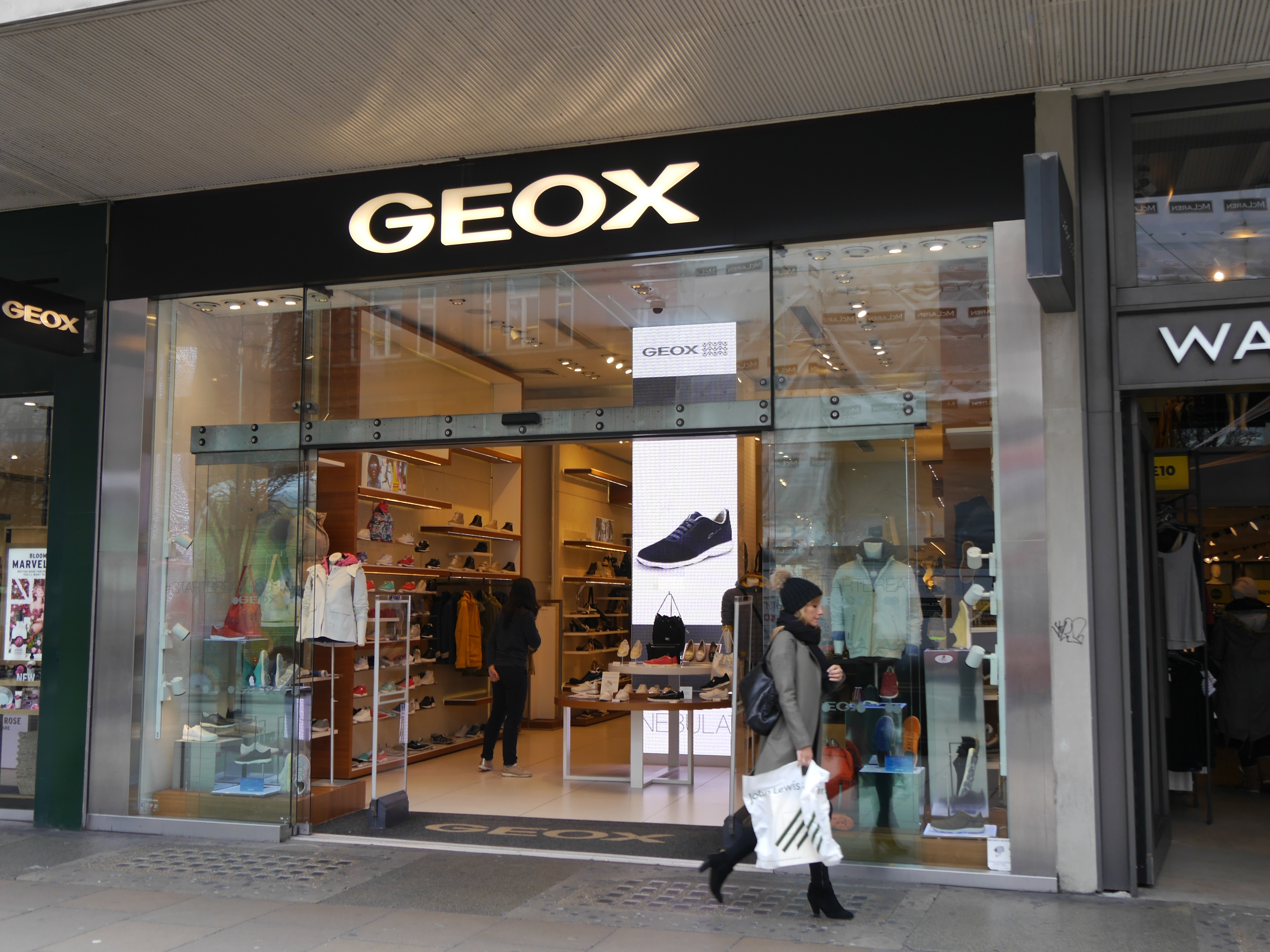 Oxford Street, London, March 2016